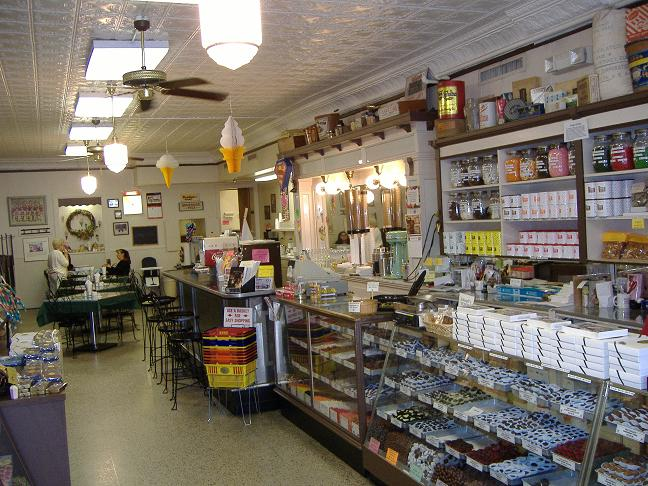 The store section of Schimpff's Confectionery, located inside the Old Jeffersonville Historic District of Jeffersonville.